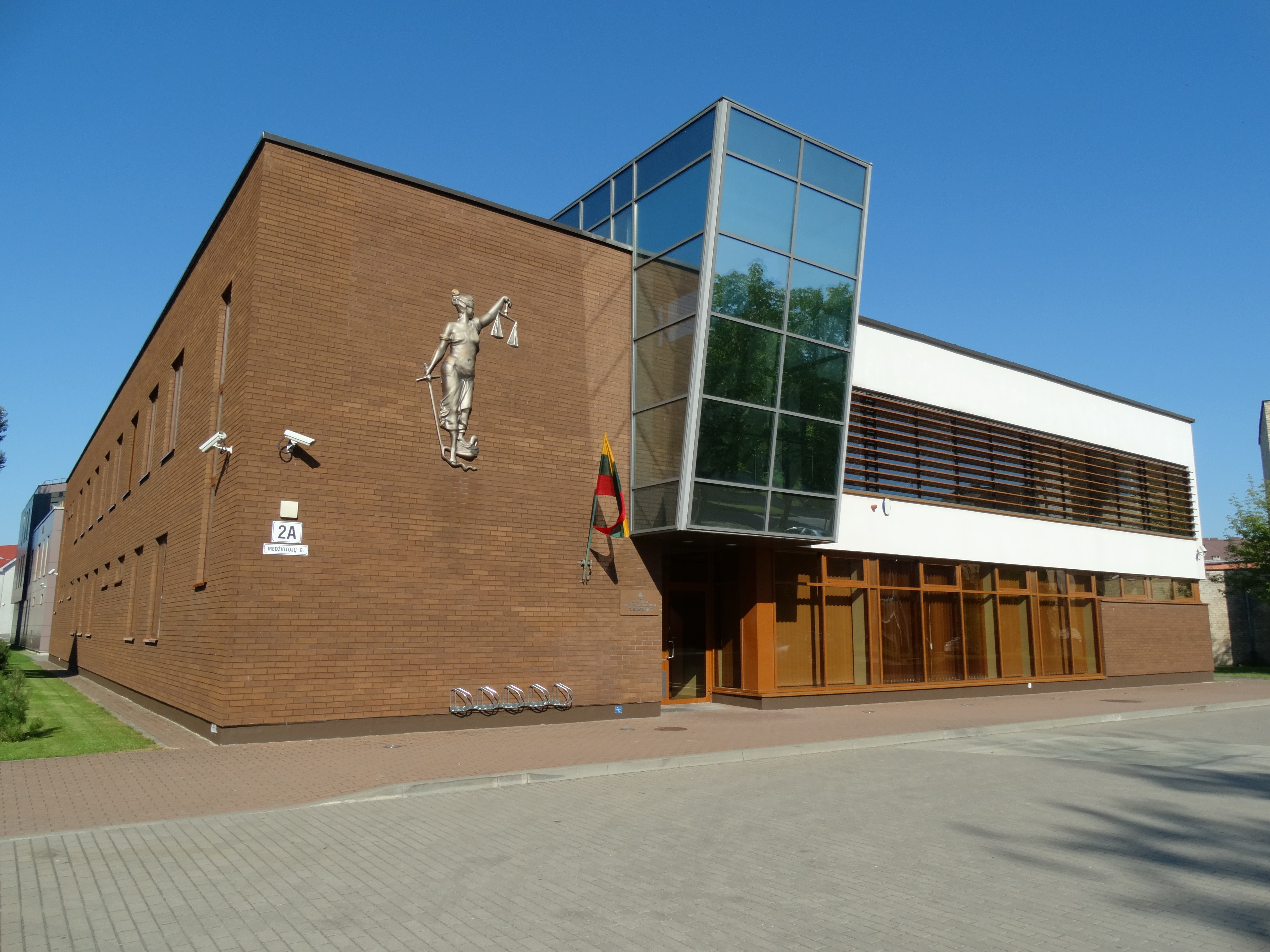 Court, Joniškis, Lithuania